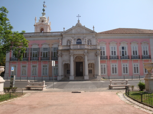 This file was uploaded for Wiki Loves Monuments in Portugal with the unique identifier 74982.